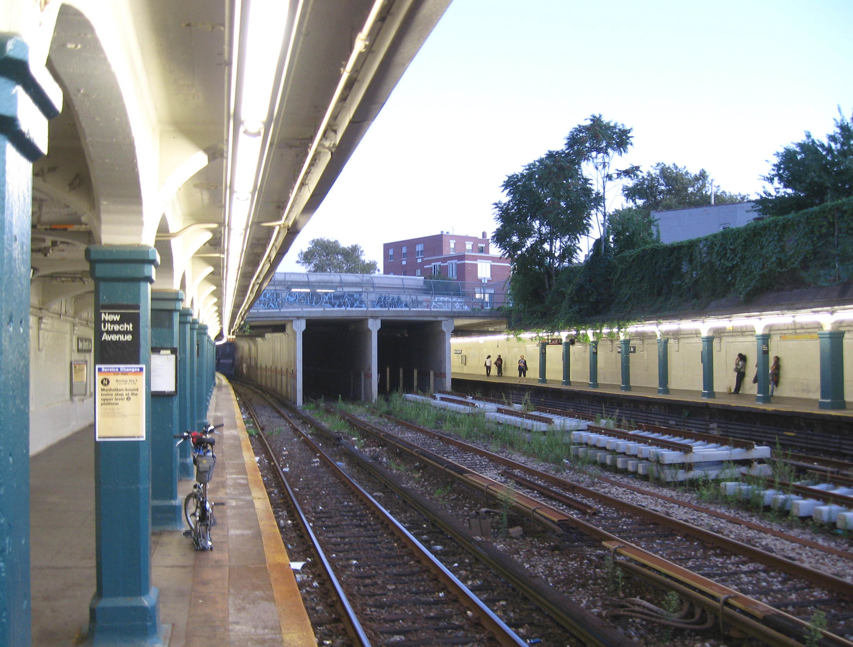 Looking south at the southern parts of the northbound trench platforms of New Utrecht Avenue/62nd Street (New York City Subway) just after the lights came on, after a sunny afternoon